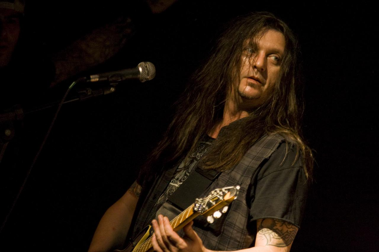 Dave "Snake" Sabo playing live with Skid Row at Manifesto Bar, 28/11/2009, São Paulo, Brasil.